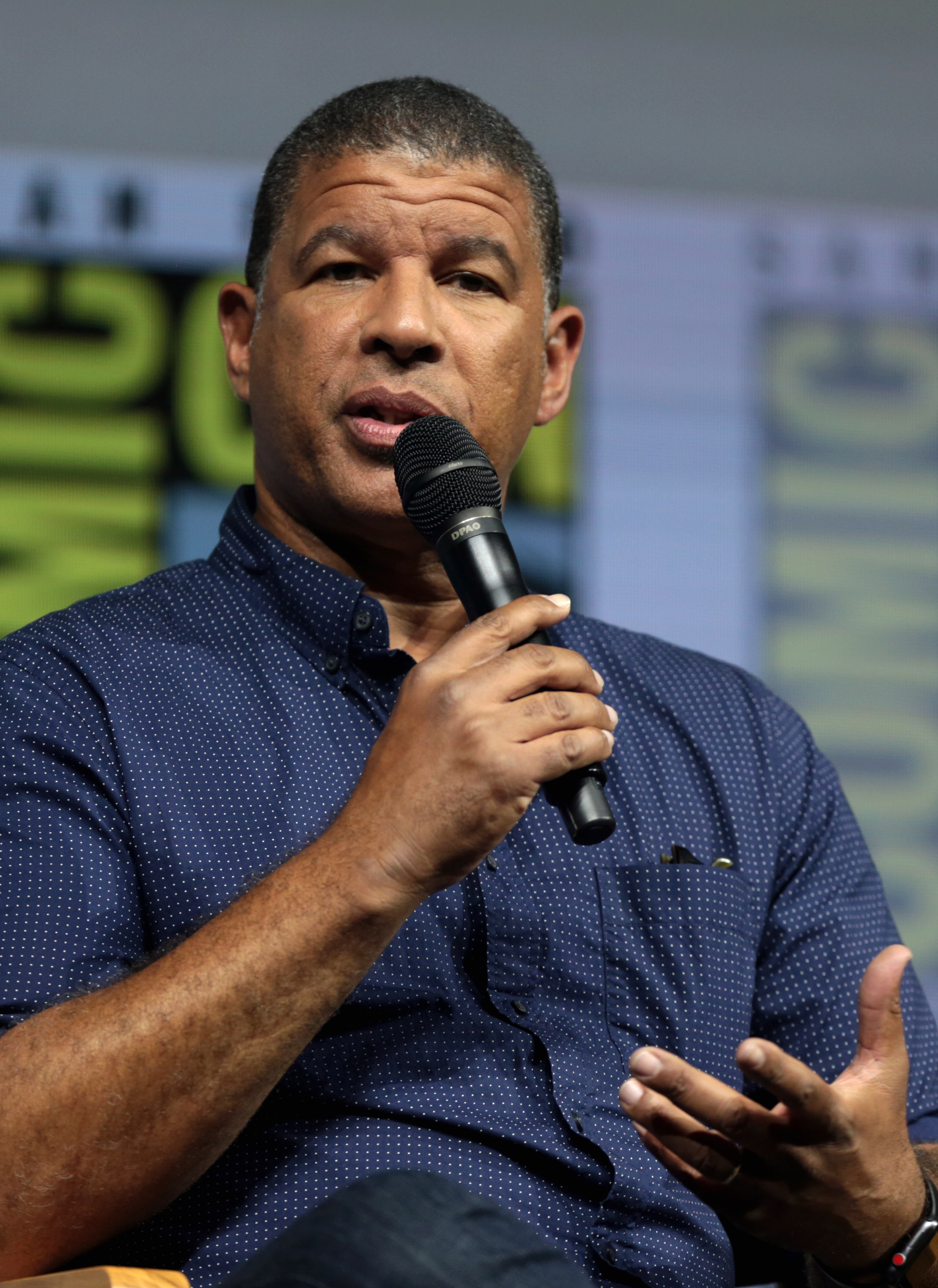 Peter Ramsey speaking at the 2018 San Diego Comic-Con International in San Diego, California.